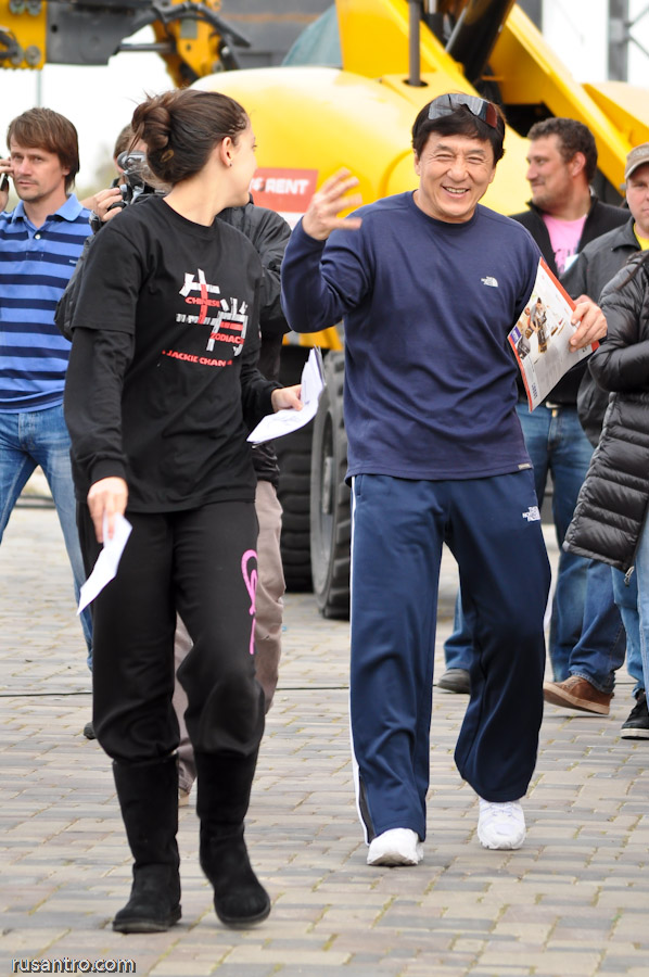 Jackie Chan on the set of Chinese zodiac (April 27, 2012, Jelgava)